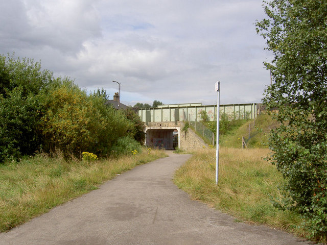 Stoneyford Road bridge over Trans Pennine Trail.